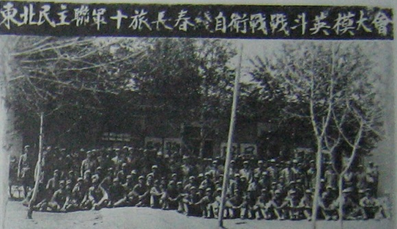 Chinese Communist troops head in Manchuria(northeast China).新四军三师十旅赴东北后编为东北民主联军十旅。一九四六年七月于吉林省大赉县（今大安市）召开长春线自卫战战斗英模大会合影。